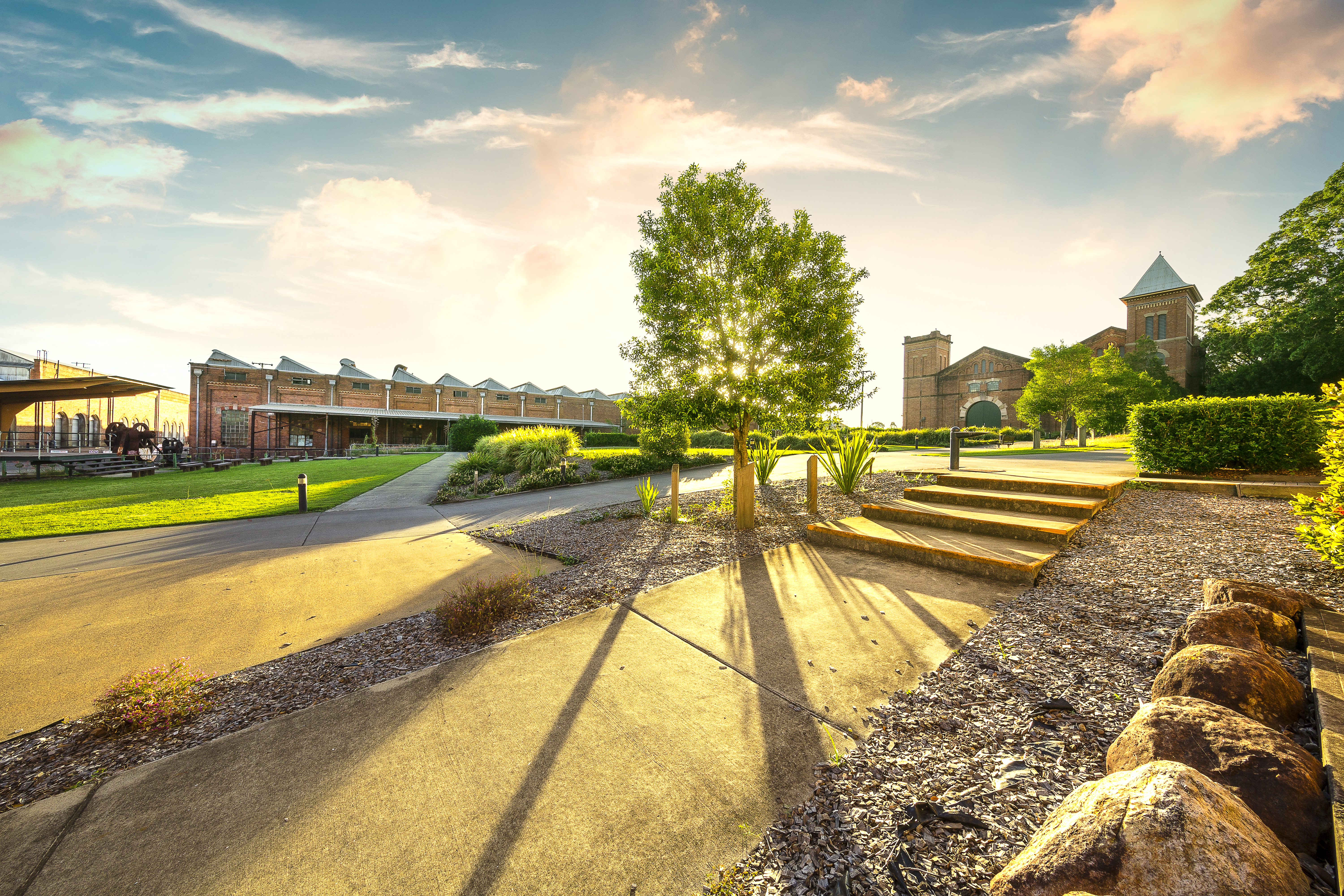 The Workshops Rail Museum, North Ipswich